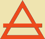 Air signs